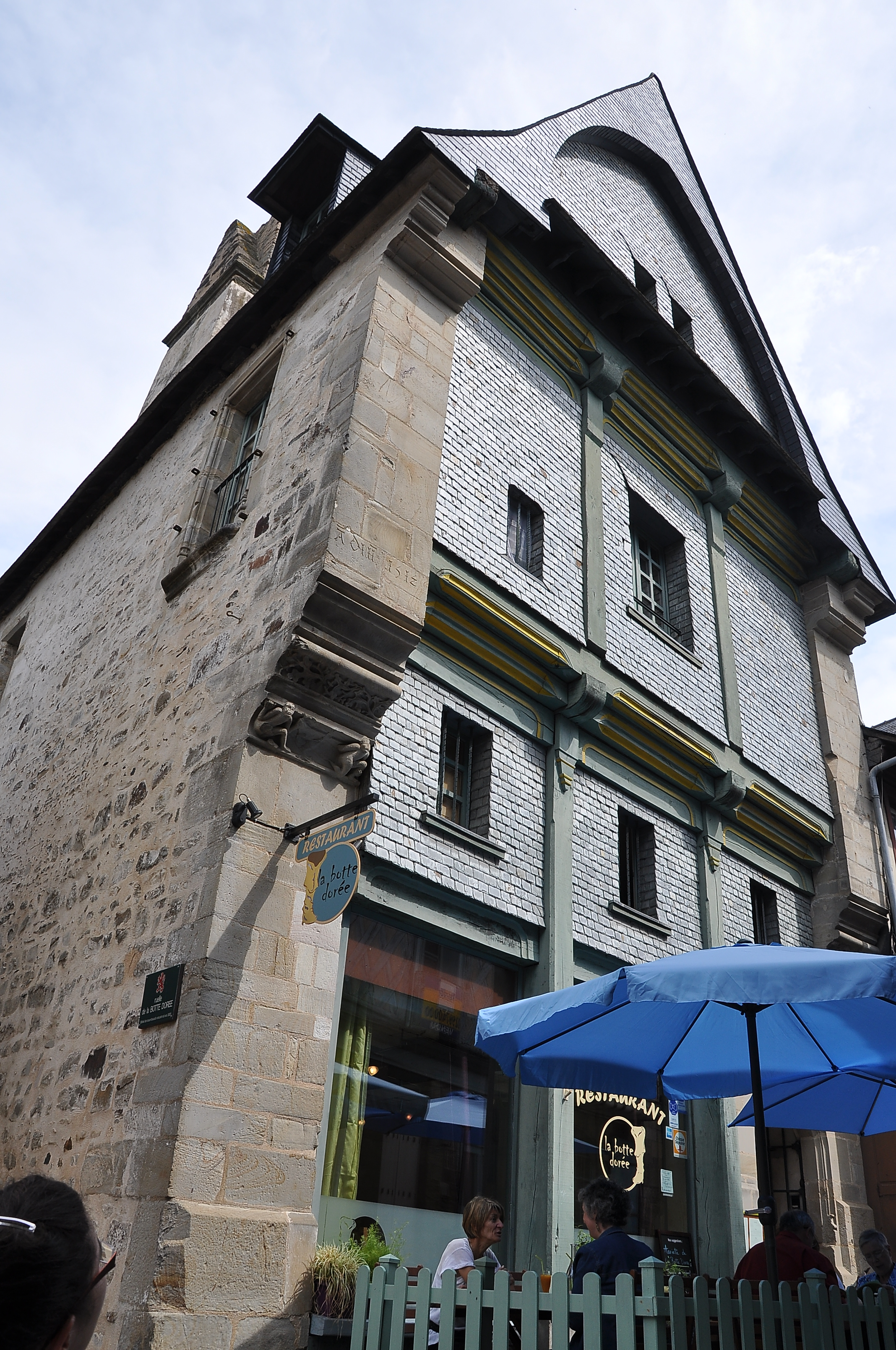 Hôtel de la Botte Dorée located at 20 rue d'Embas in Vitré in the departement of Ille-et-Vilaine, France. The building is registered as a historical monument by the French Ministry of Culture.